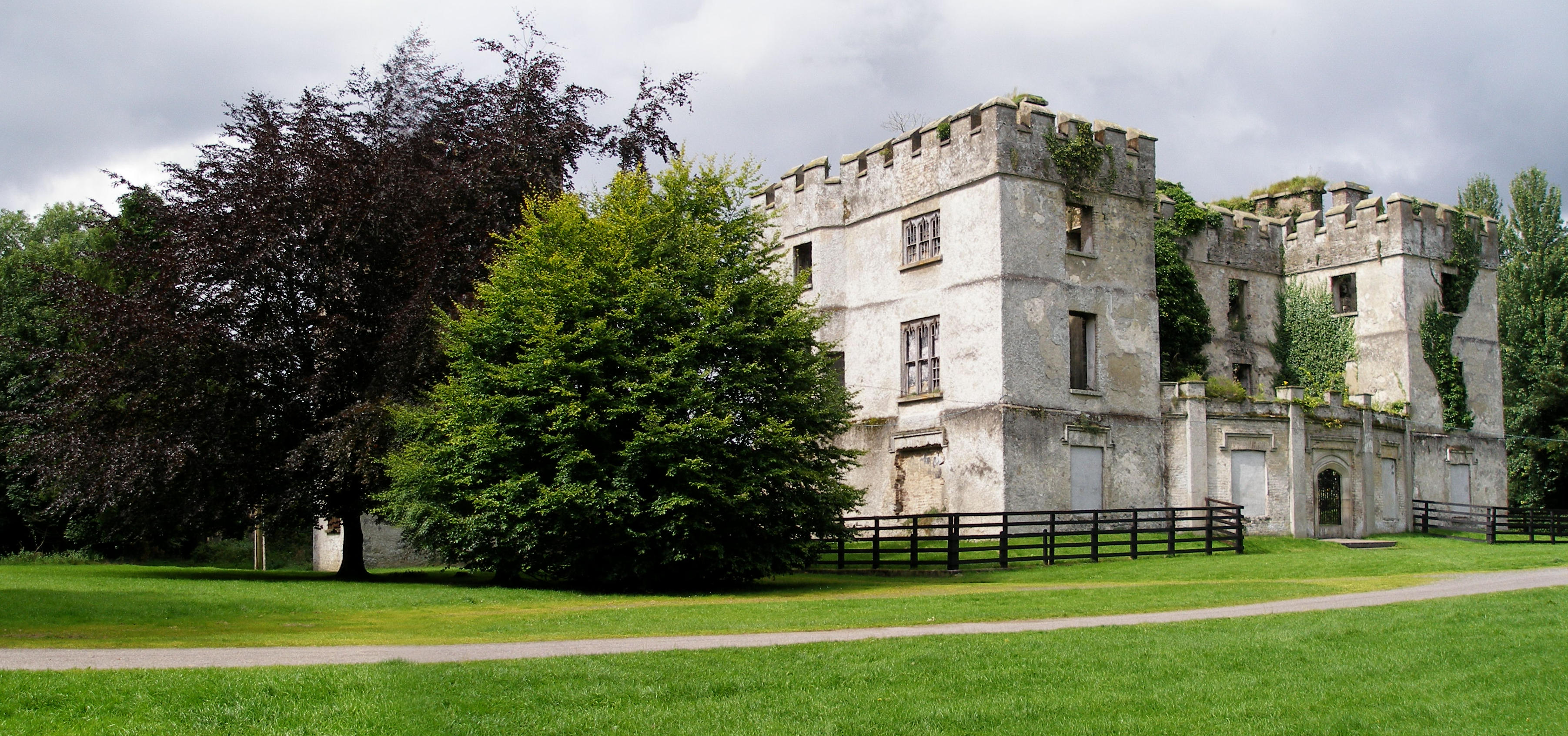 Donadea Castle at Donadea Park